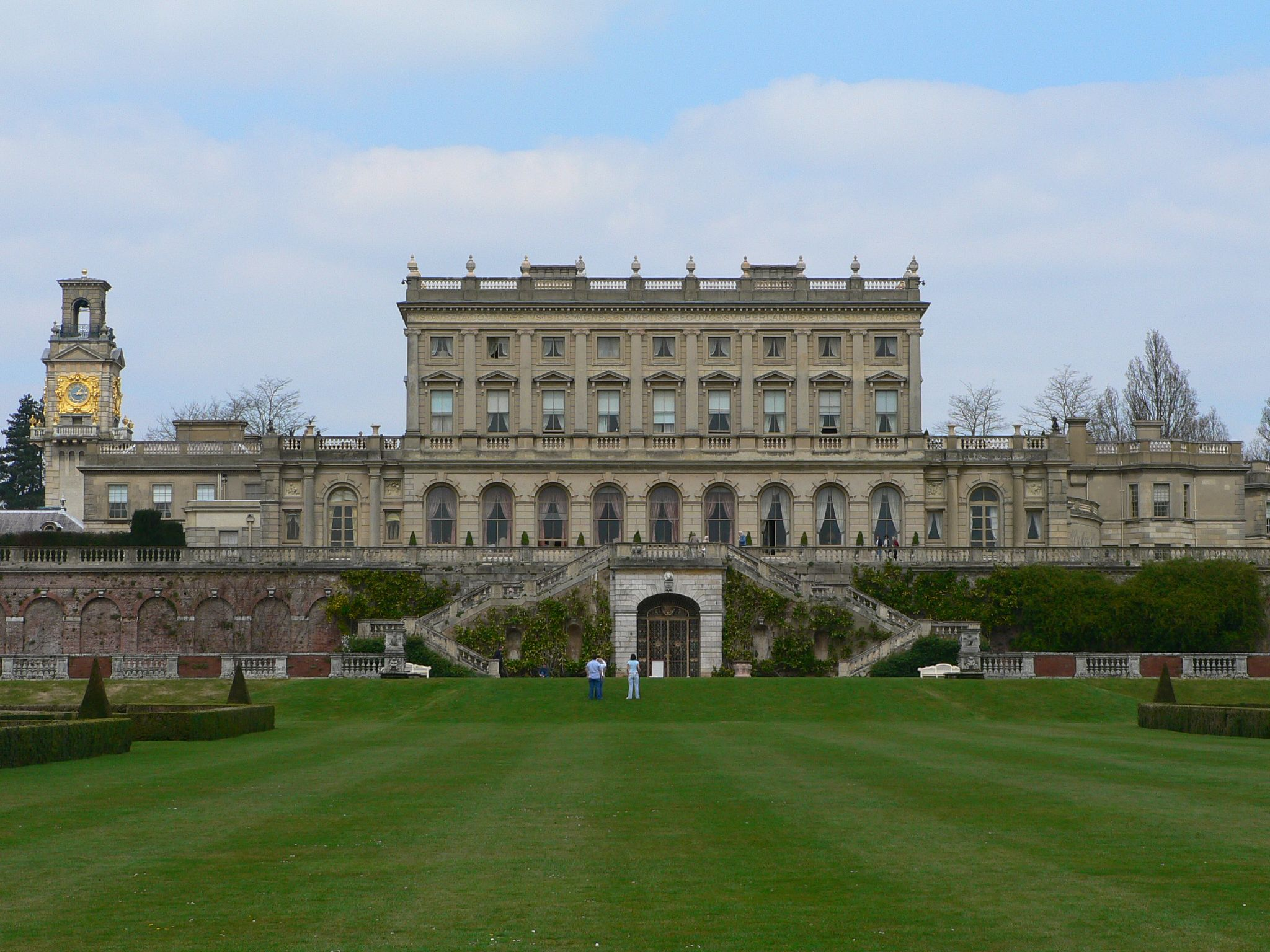 Cliveden mansion near the Thames river in Buckinghamshire, England.